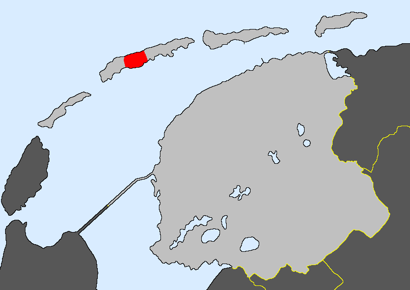 The location of the Midsland dialect in the province of Friesland.